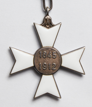 Knight's Cross of the Order of Rio Branco - reverse